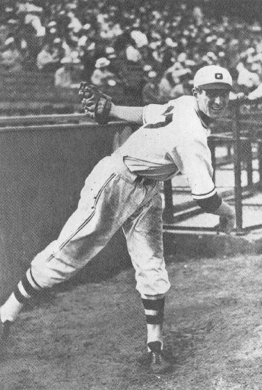 A baseball player from Russia, Victor Starffin